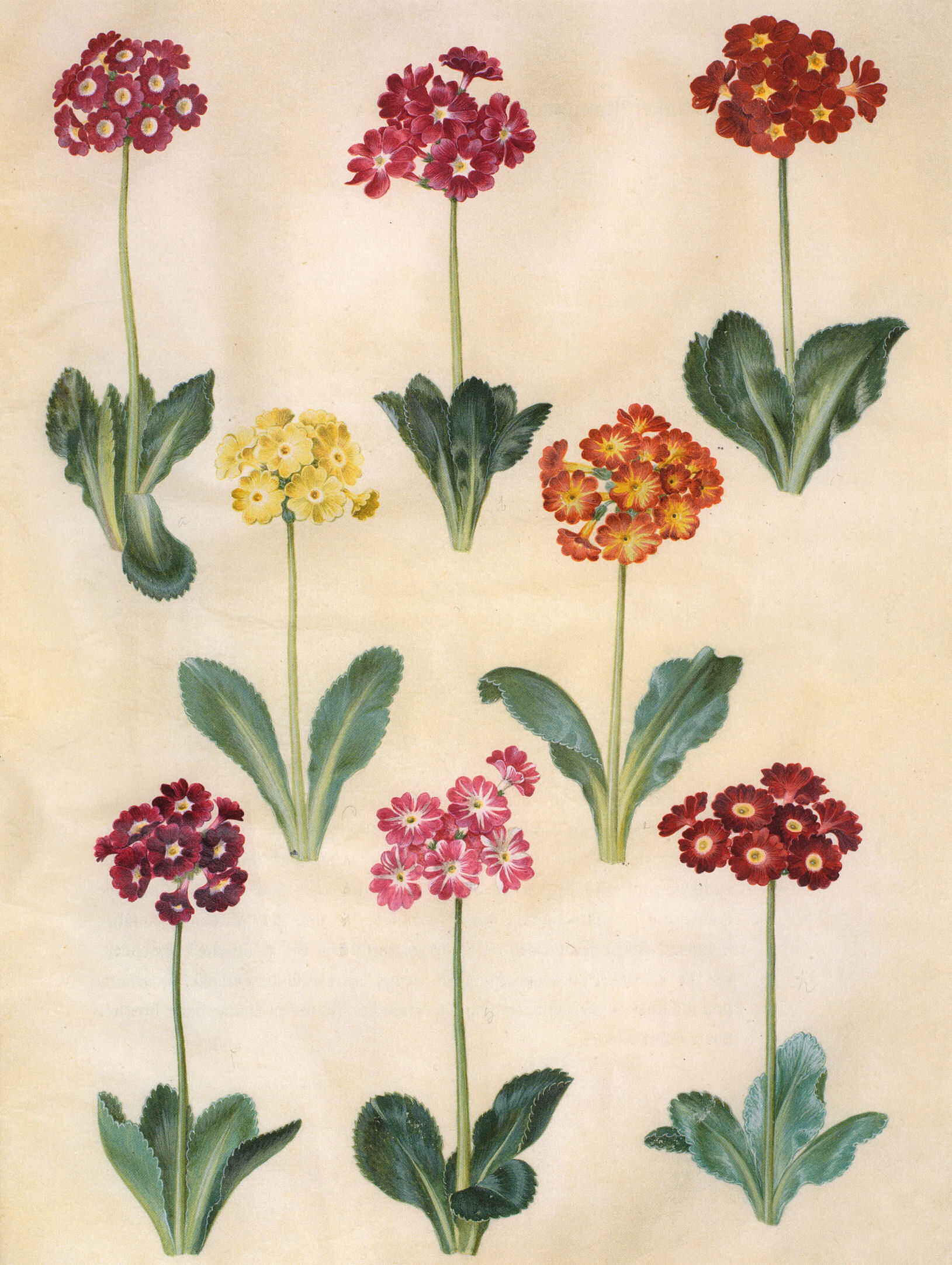 primula x pubescens, gouache on vellum, in: Gottorfer Codex